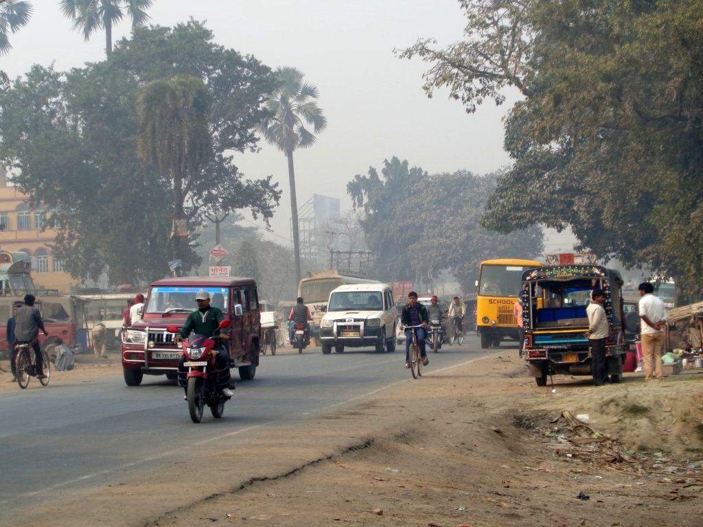 Road connecting New Zero Mile with NH-57